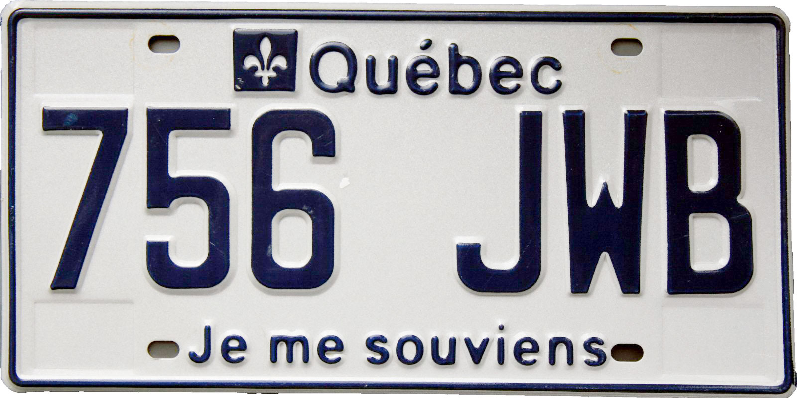 Québec license plate, scanned from personal collection